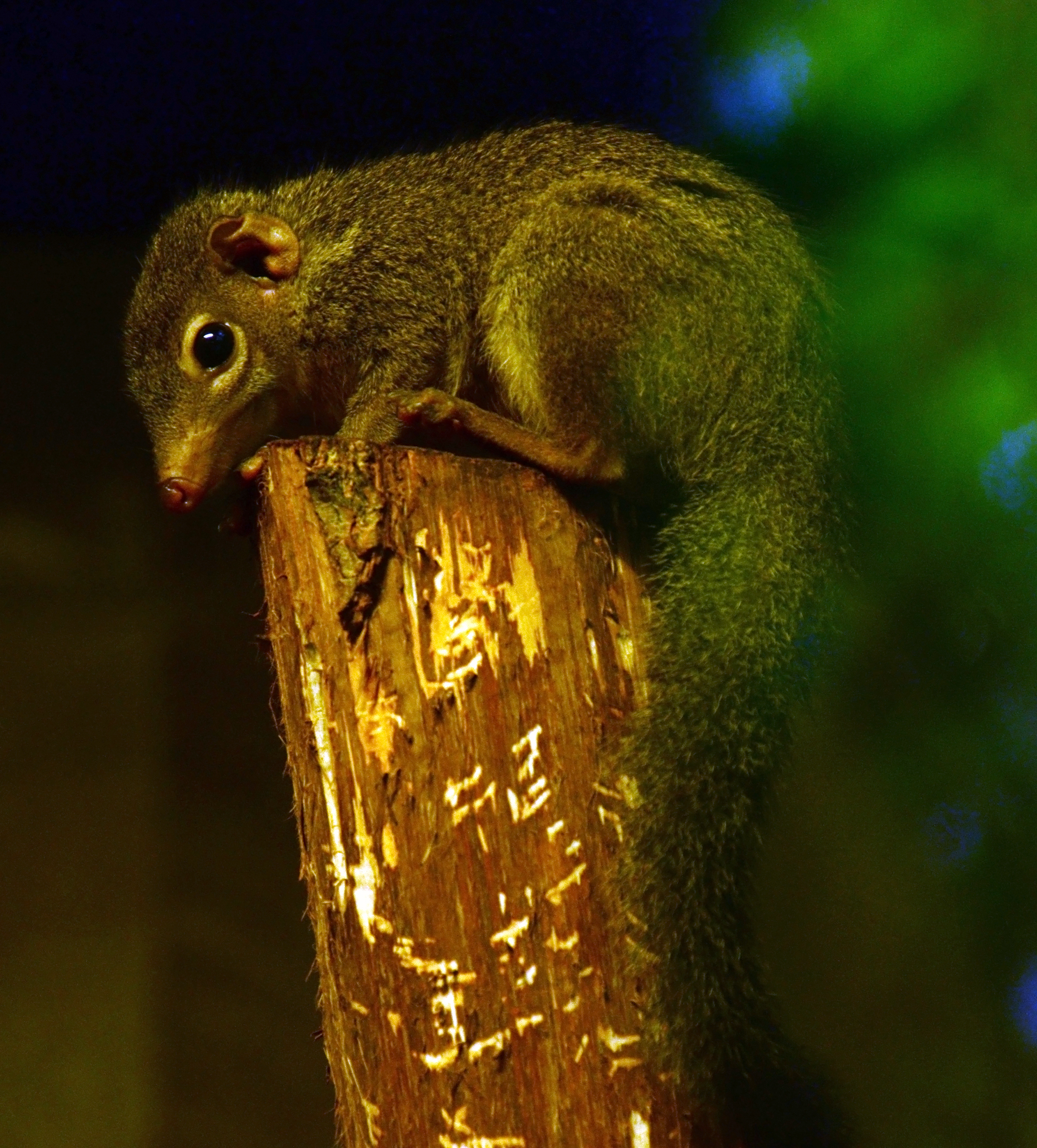 Burmese tree shrew ( Tupaia belangeri ) in Planckendael.